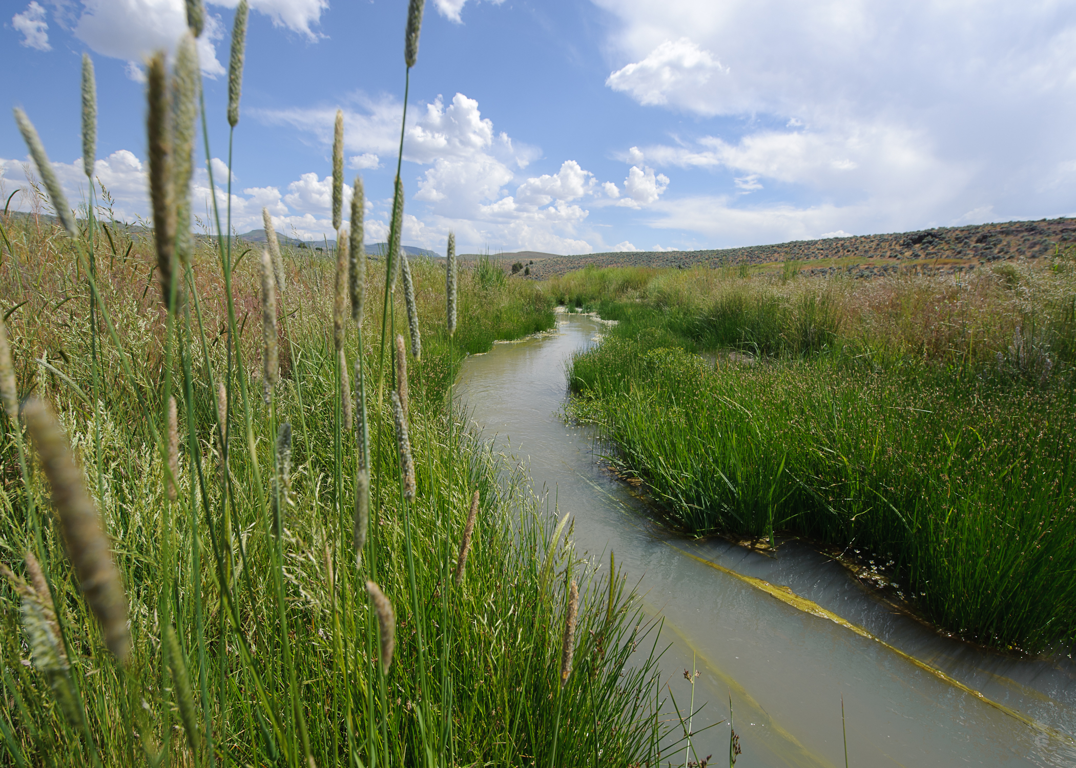 Sand Creek wet meadow restoration somewhere near Alturas, Modoc County, California, USA